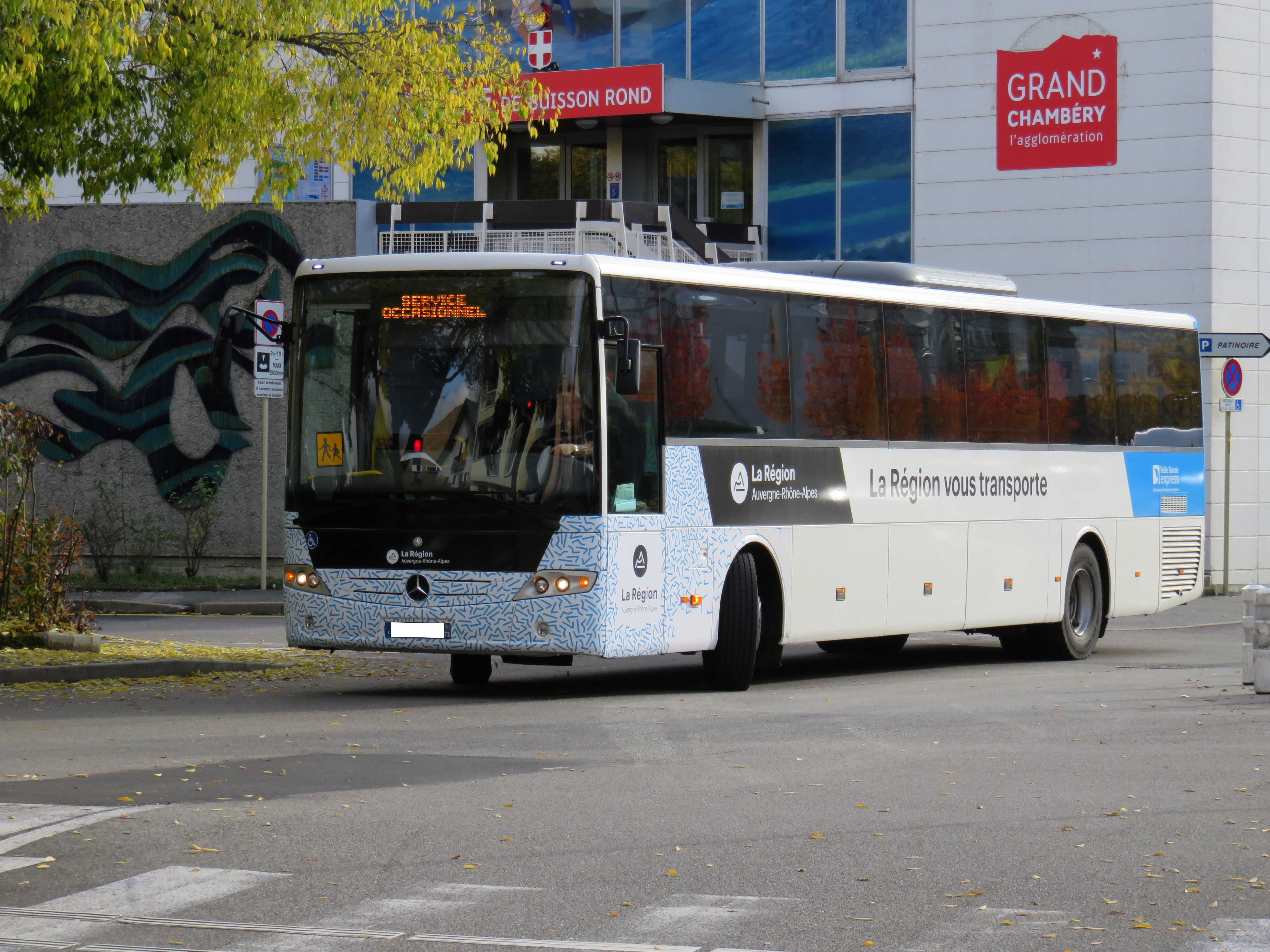 A Mercedes-Benz Intouro (Alpes Découverte) manoeuvring in front of the pool (Chambéry, France) on November 8, 2018.